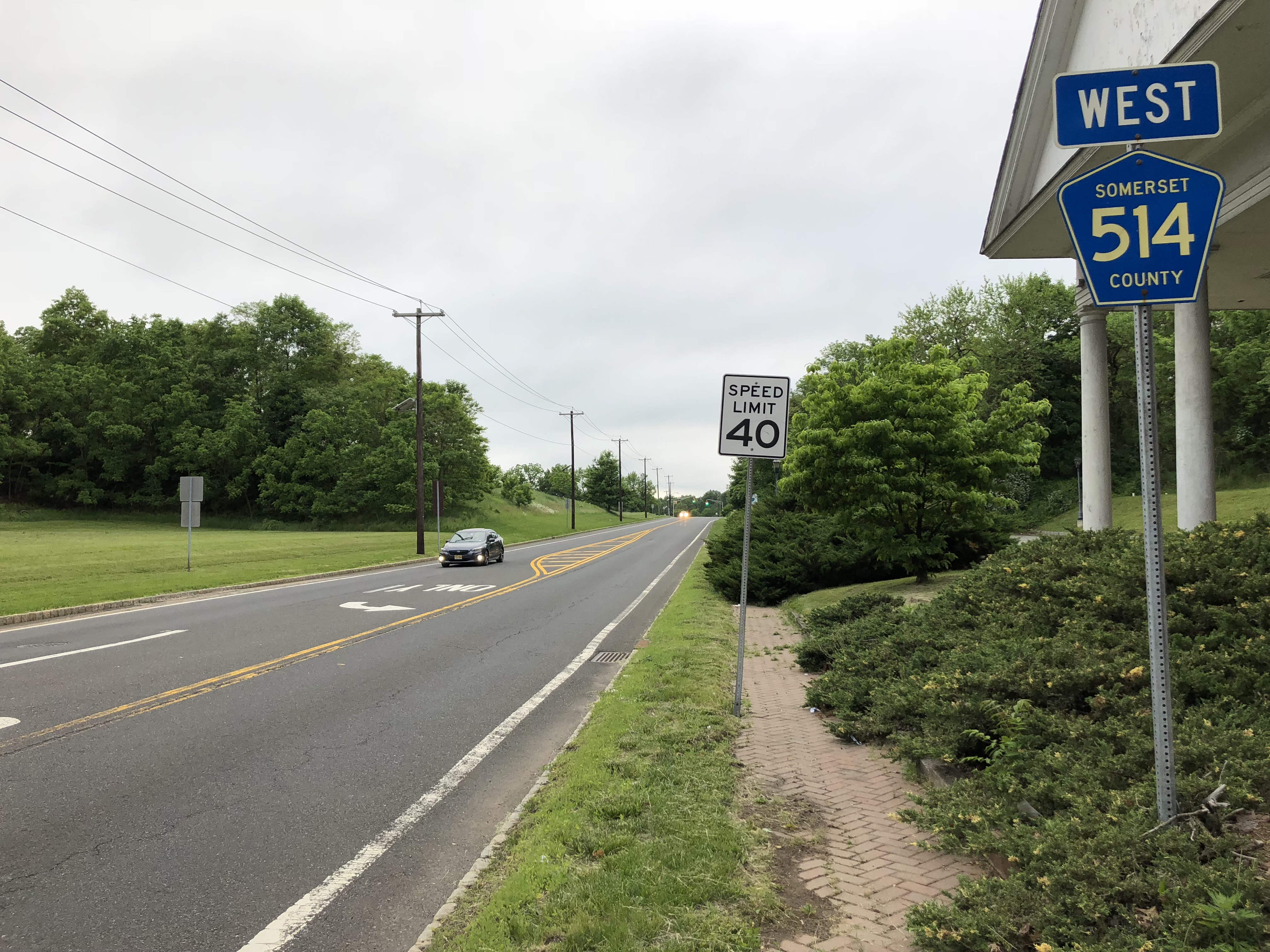 View west along Somerset County Route 514 (Amwell Road) at Somerset County Route 533 (Main Street) in Millstone, Somerset County, New Jersey